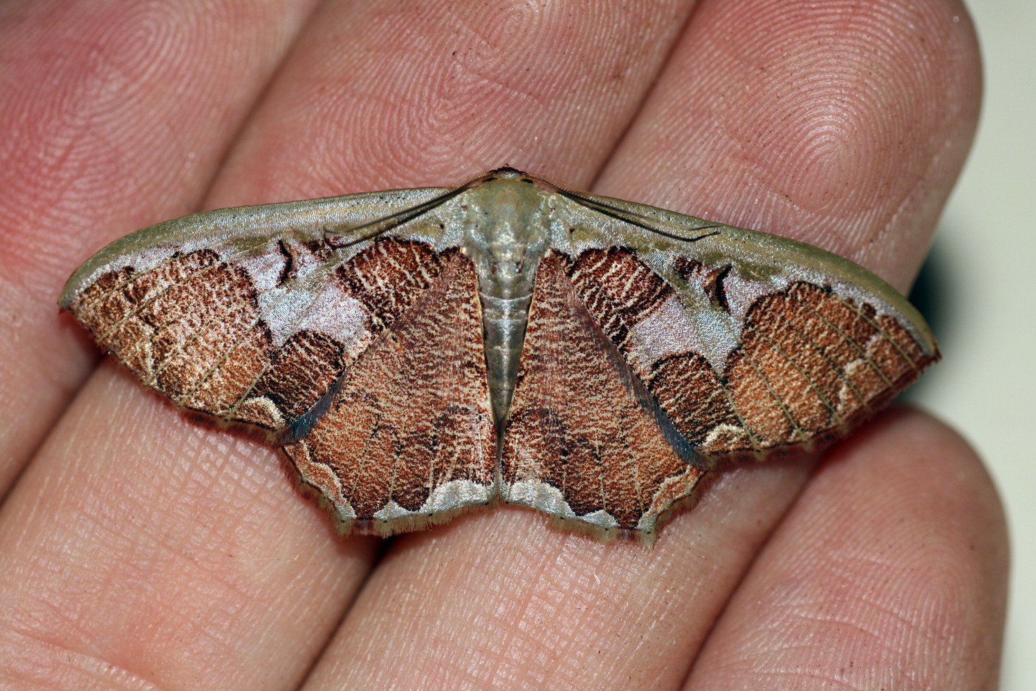 Malaysia, Fraser's Hill, March 2009